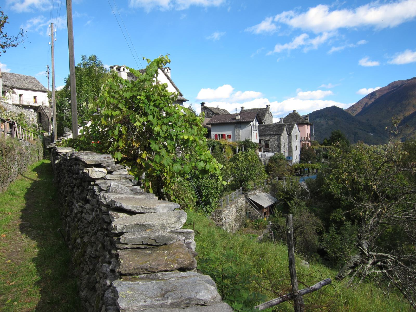 Borgnone village, part of Centovalli, Ticino, Switzerland